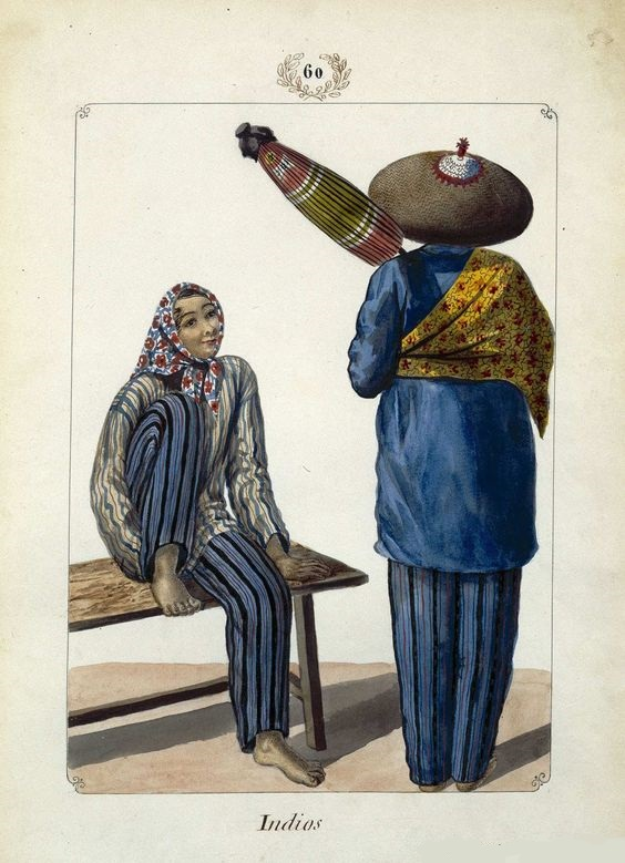 "Indios" Tipos del País (19th Century Watercolor) by José Honorato Lozano